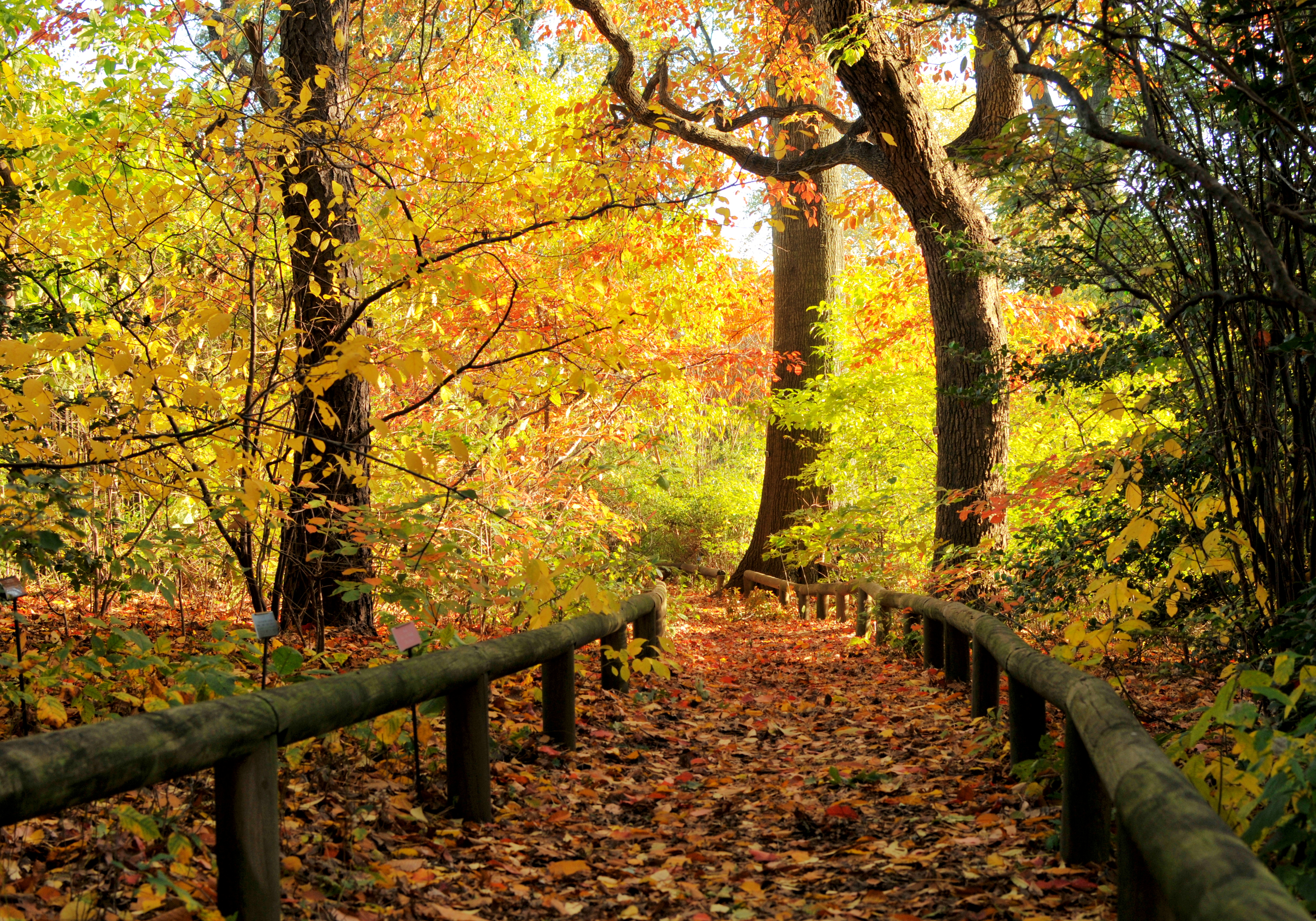 A path through the Native Flora Garden at the Brooklyn Botanic Garden. Originally published here.